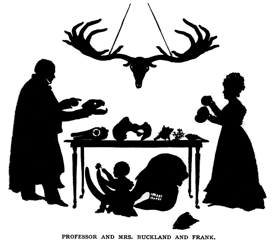 Buckland family silhouette - artist Mary Buckland, née Morland (1797-1857), British palaeontologist